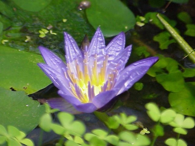 Species: Nymphaea nouchallii Family: Nymphaeaceae Image No. 1